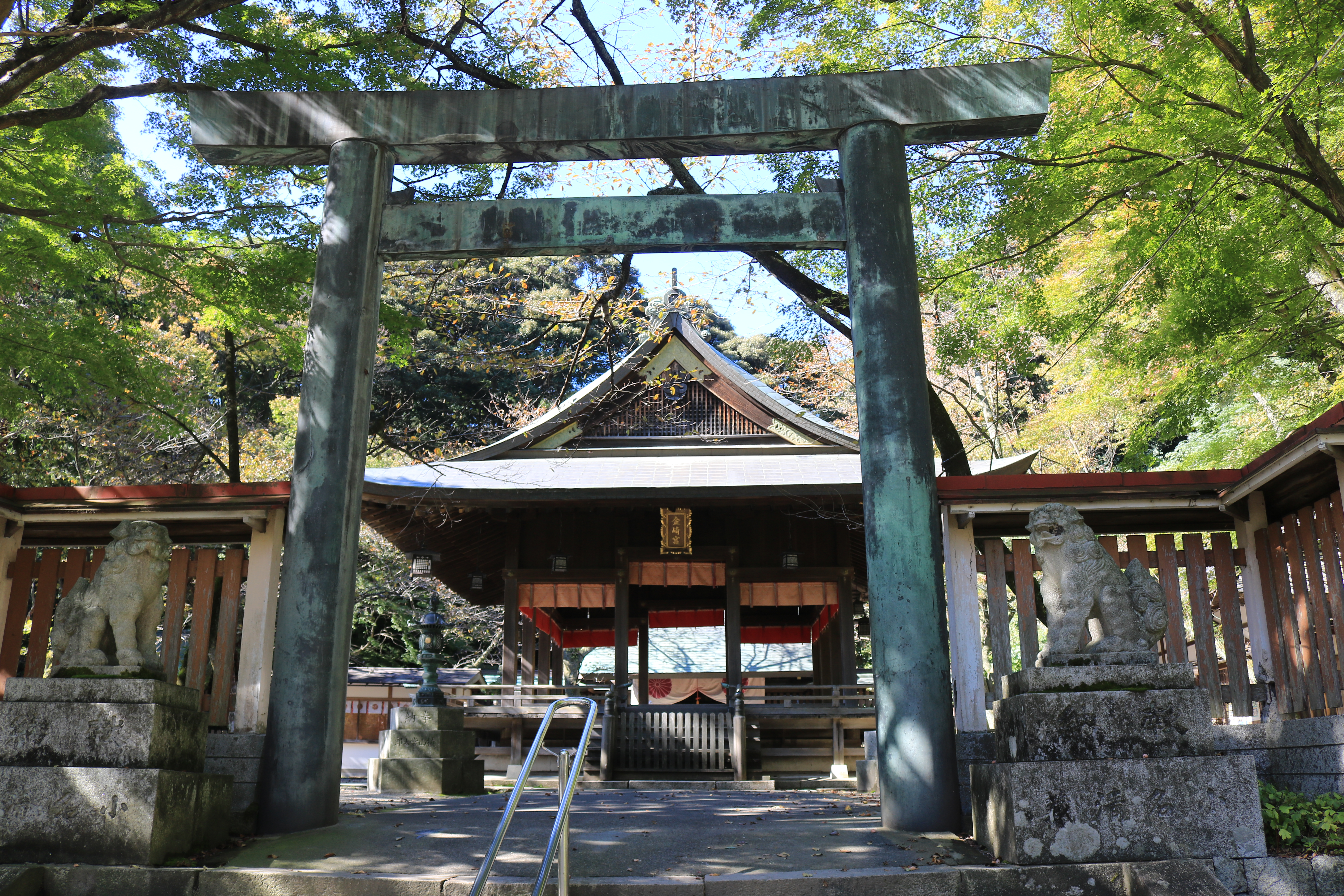 Kanegasaki-gu in Tsuruga , Fukui prefecture, Japan.